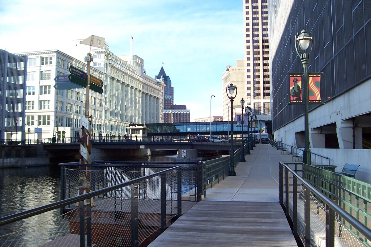 The Milwaukee Riverwalk is a continuous pedestrian walkway along the Milwaukee River in downtown Milwaukee, Wisconsin.